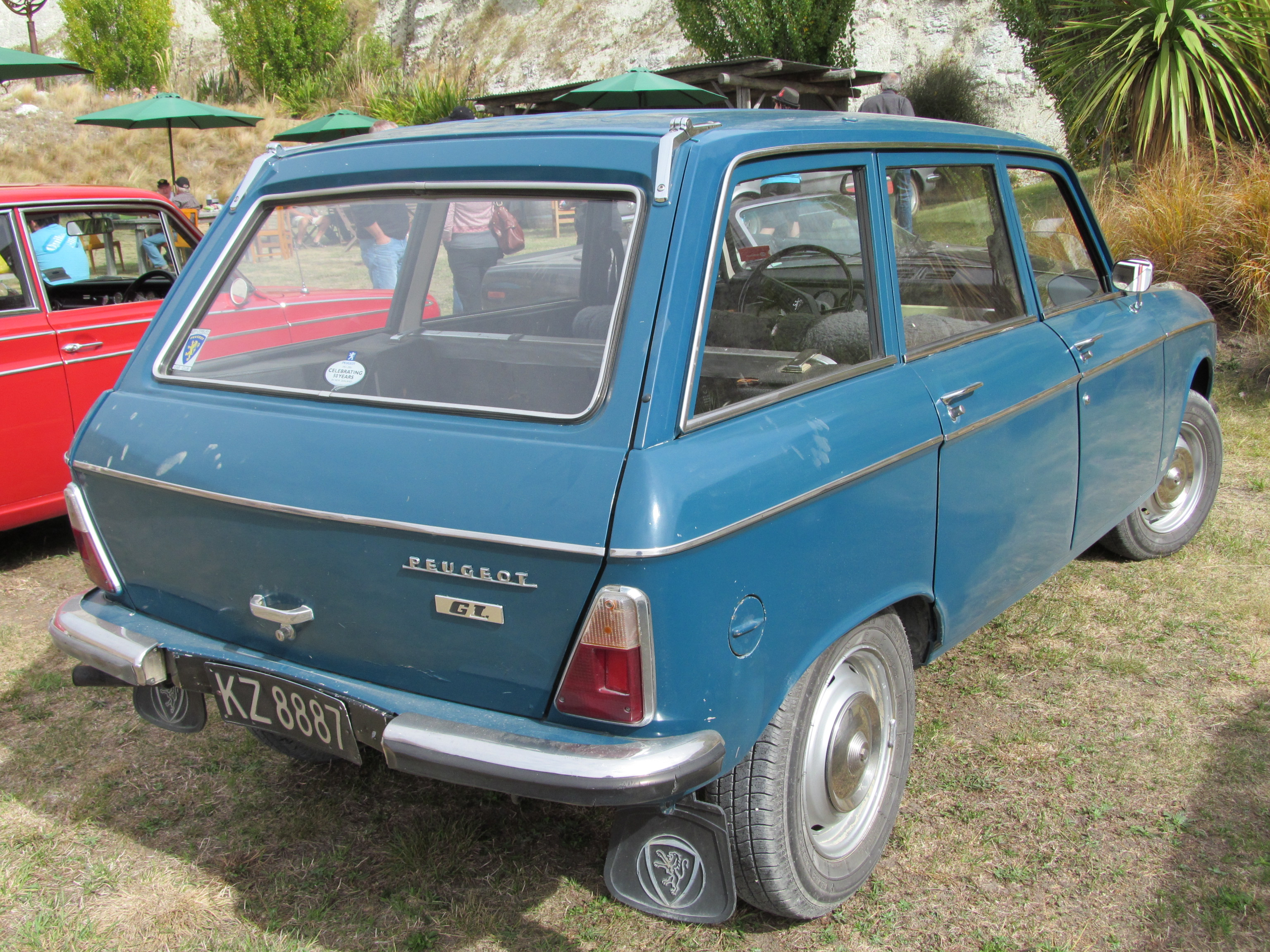 KZ8887 These have an uncanny resemblance to the Austin Maxi from the rear, mainly thanks to those rear lights which appear to be exactly the same as the ones on Maxis. I've always found the number plate position on these slightly strange, and I think it would work better in the centre like it is on the Maxi.